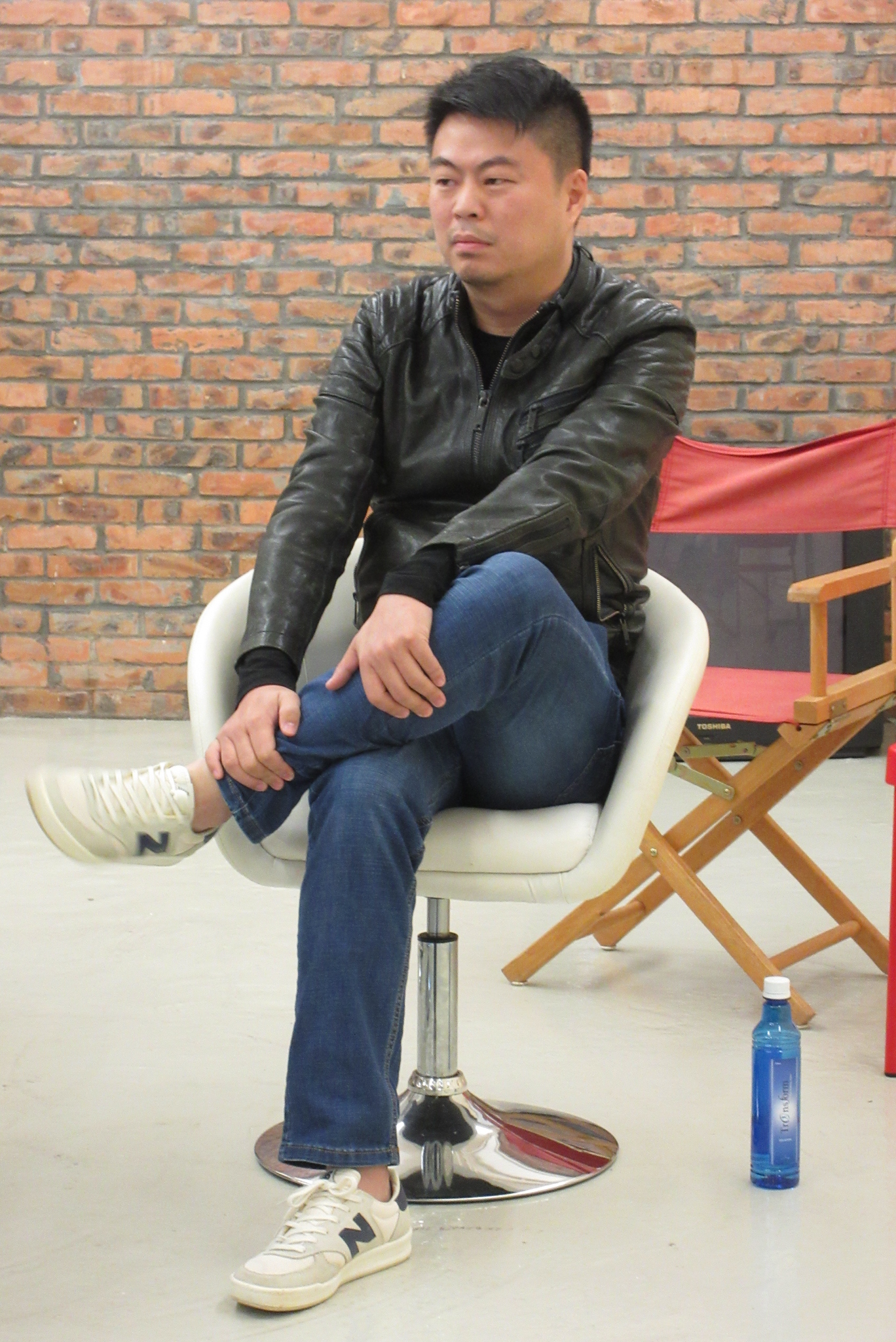 HK Kwun Tong 香港電影導演會 HKFDG movie directorship talk in December 2017 翁子光